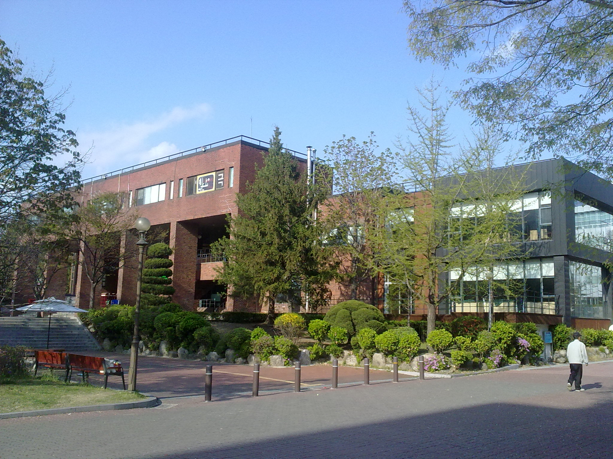 Student Hall of the University of Seoul.